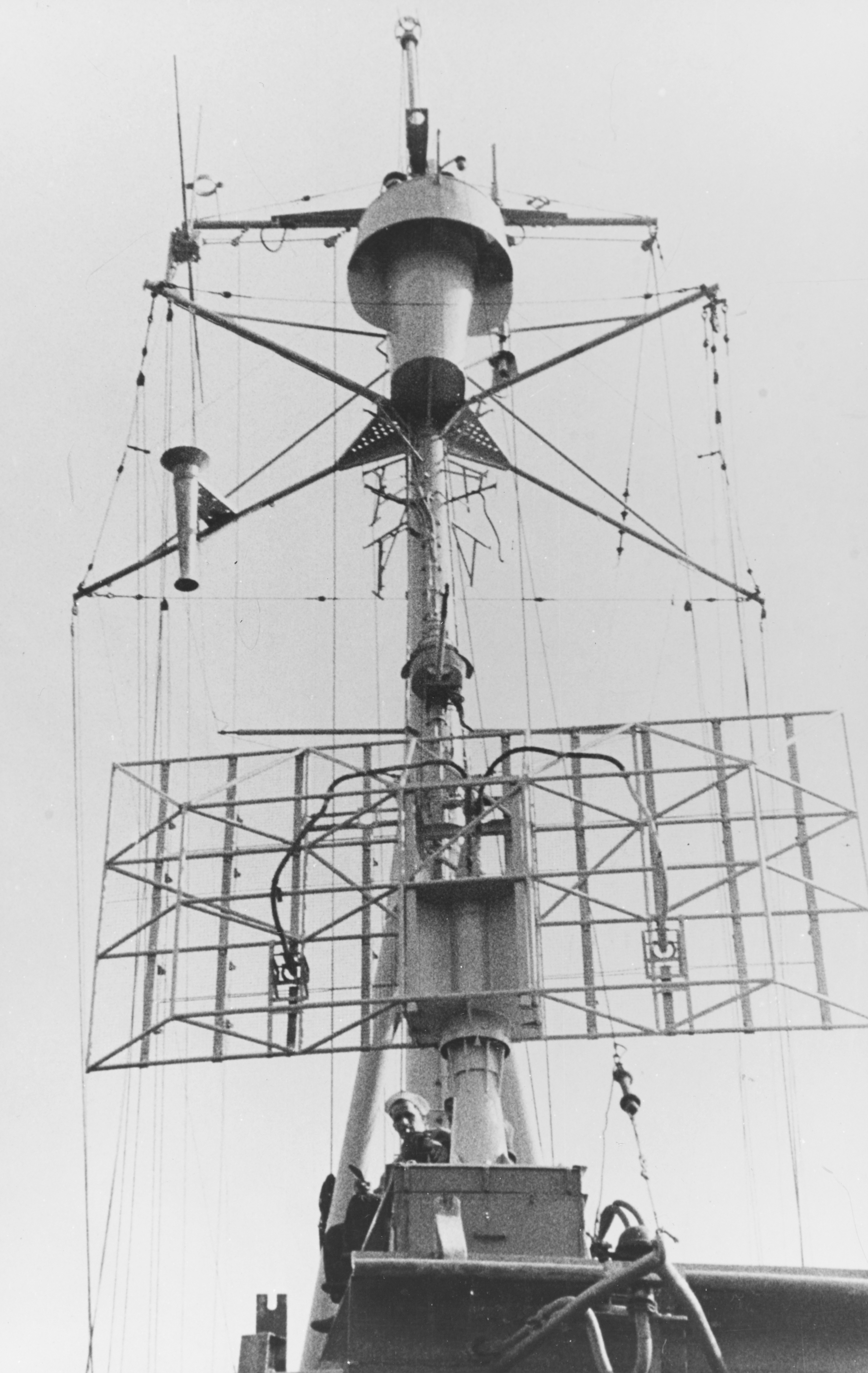 Former T 35 as DD-935, August 1945 in Boston, Massachusetts. FuMO-21 radar visible.